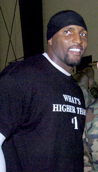 Ray Lewis takes time to autograph a football and pose for a photograph with Staff Sgt. Leah Francisco. Sergeant Francisco is assigned as the 316 SFS commander's executive.